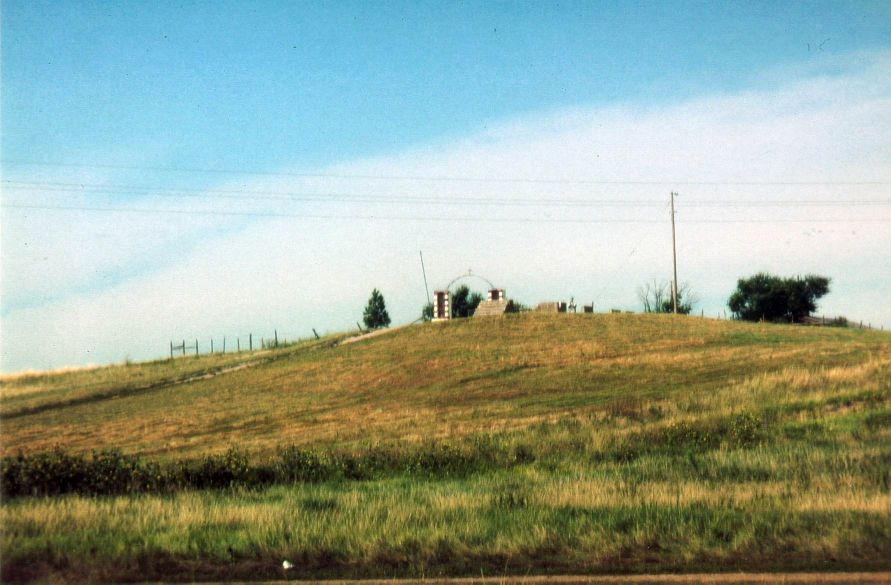 Wounded Knee, Pine Ridge Reservation, South Dakota, USA Entrance gate to cemetary, location of Hotchkiss gun used during Wounded Knee Massacre and later mass grave for victims.